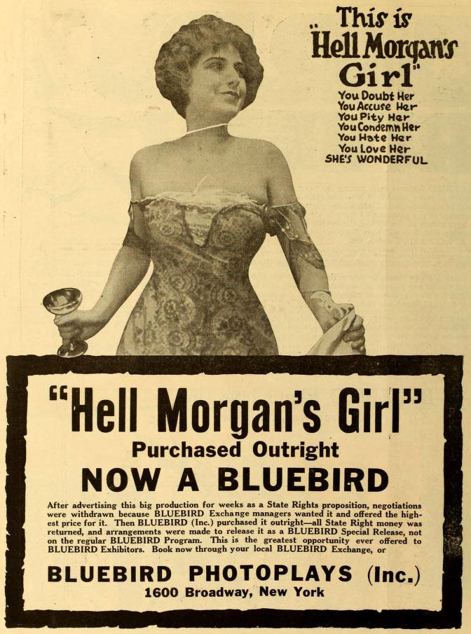 Advertisement in Moving Picture World